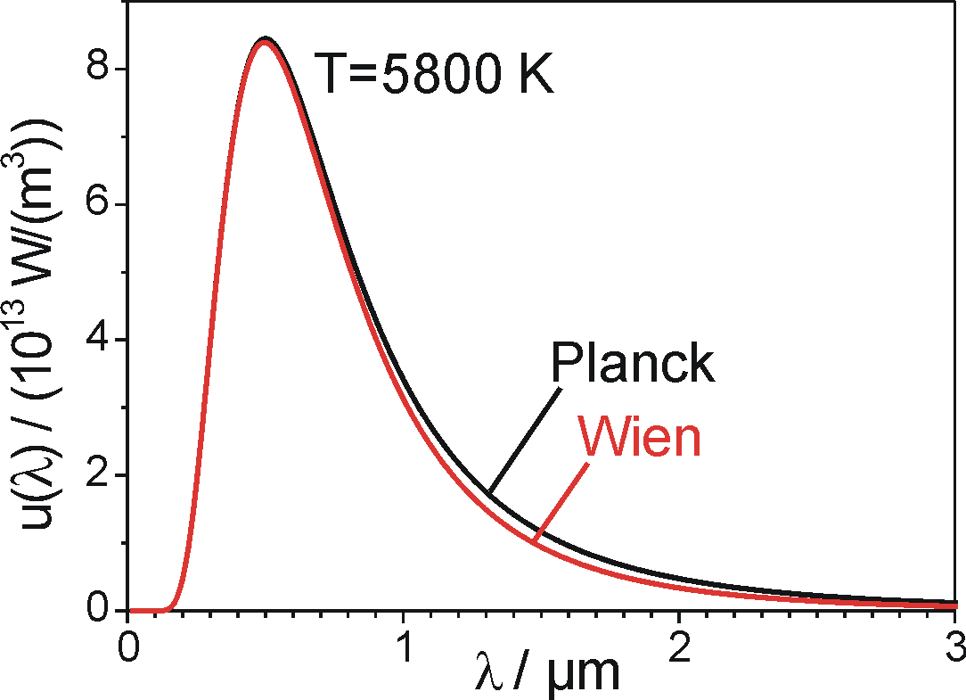 Comparison between Wien's and Planck's law of radiation